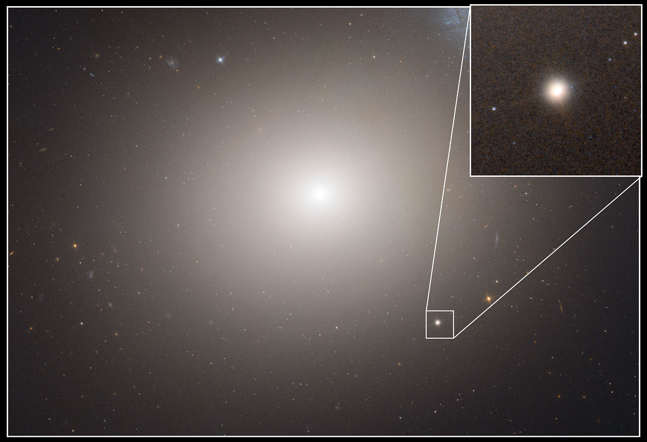 This NASA/ESA Hubble Space Telescope image shows the massive elliptical galaxy Messier 60 (also called M60, or NGC 4649). M60 is 120 million light-years across and contains an estimated 400 billion stars. Highlighted in the inset is the dwarf galaxy M60-UDC1 which orbits the giant elliptical. Lying about 50 million light-years away, M60-UCD1 is a tiny galaxy with a diameter of 300 light-years — just 1/500th of the diameter of the Milky Way! Despite its size it is pretty crowded, containing some 140 million stars. The dwarf galaxy may actually be the stripped remnant of a larger galaxy that was torn apart during a close encounter with Messier 60. Circumstantial evidence for this comes from the recent discovery of a monster black hole, which is not visible in this image, at the centre of the dwarf. The black hole makes up 15 percent of the mass of the entire galaxy, making it much too big to have formed inside a dwarf galaxy.